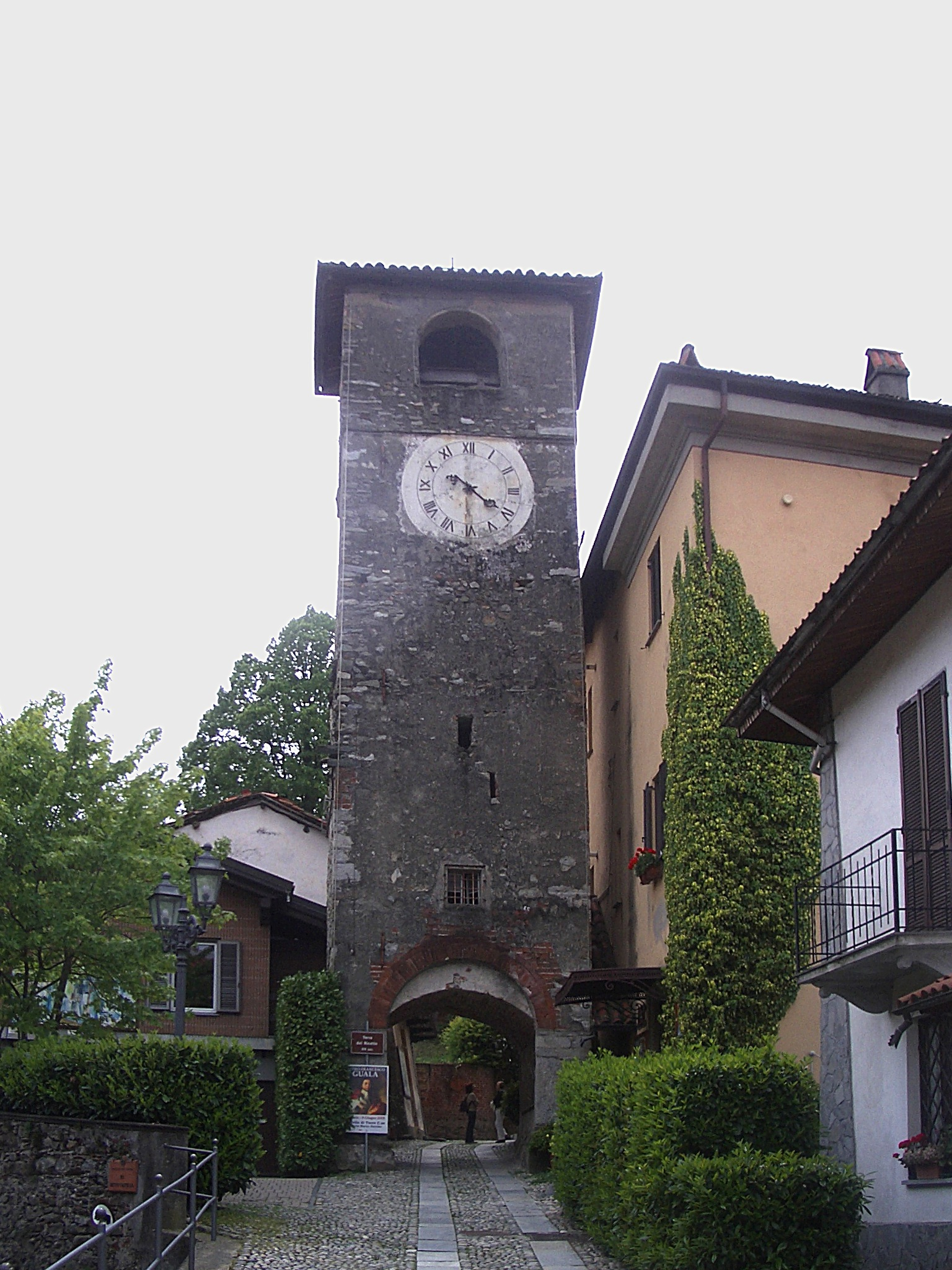 Torre Canavese, The tower of the ricetto, with the door leading to the castle